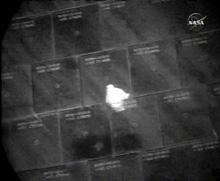 A shot of the damage to Space Shuttle Endeavor's thermal protective tiles on mission STS-118.